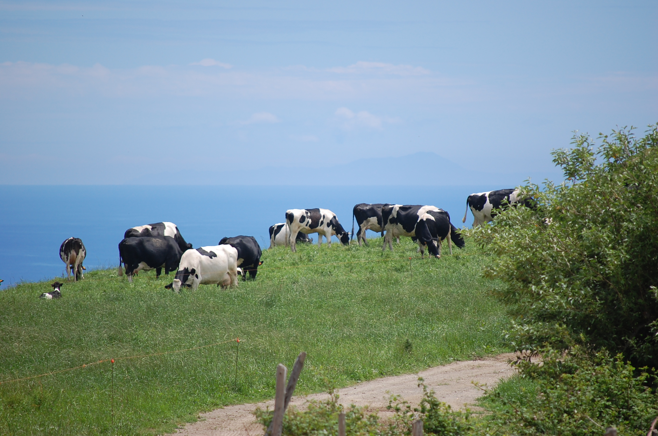 There are a lot of these fellows on the island